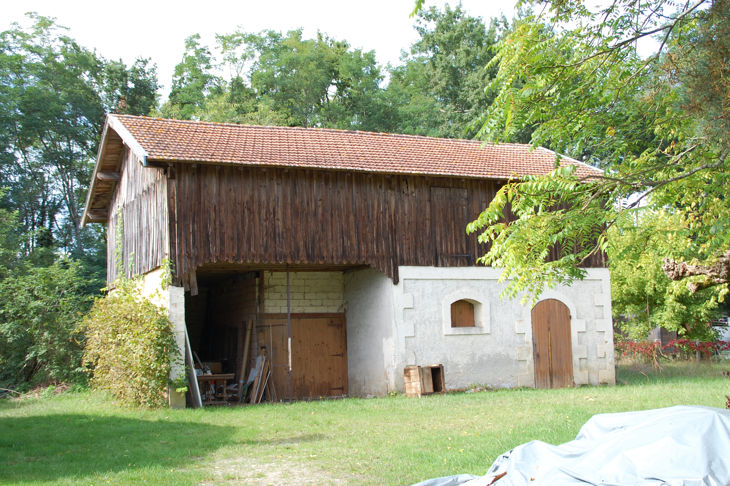 Barn in Cabanac, Gironde, France.